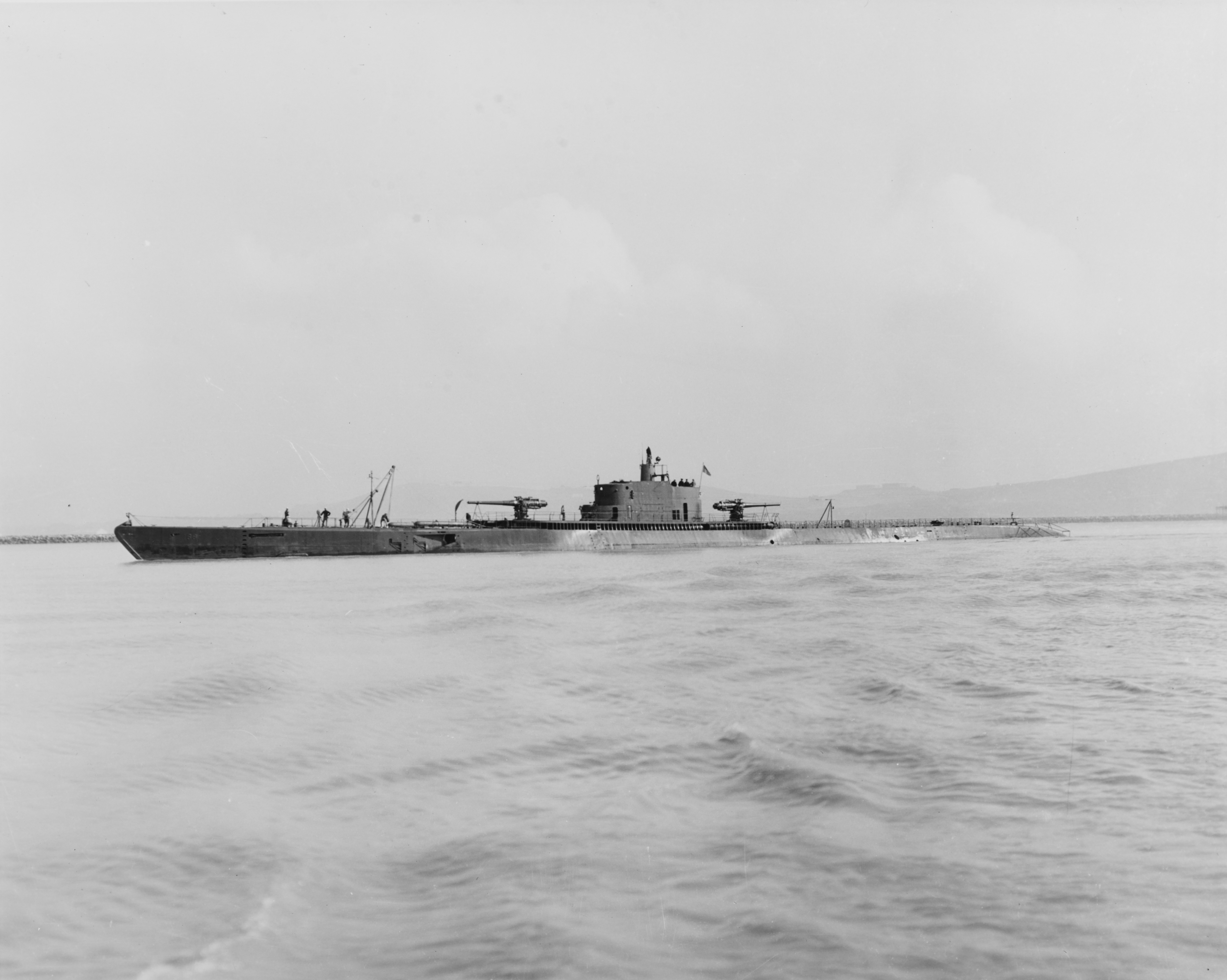 Off the Mare Island Navy Yard, California, 15 April 1942, following modernization. Note her very heavy deck armament of two 6/53 guns; also embrasure in her upper hull side, just in front of the forward gun, for newly-installed topside torpedo tubes. At least two torpedoes are on deck above this location, probably being prepared for stowage below. Photograph from the Bureau of Ships Collection in the U.S. National Archives.